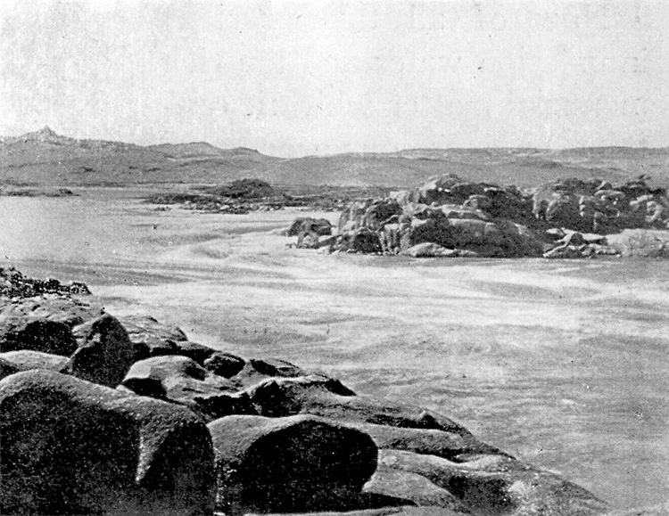 Henry RIDER HAGGARD (* 1856 , † 14 May 1925) 6th cataract of Nile, 1908.